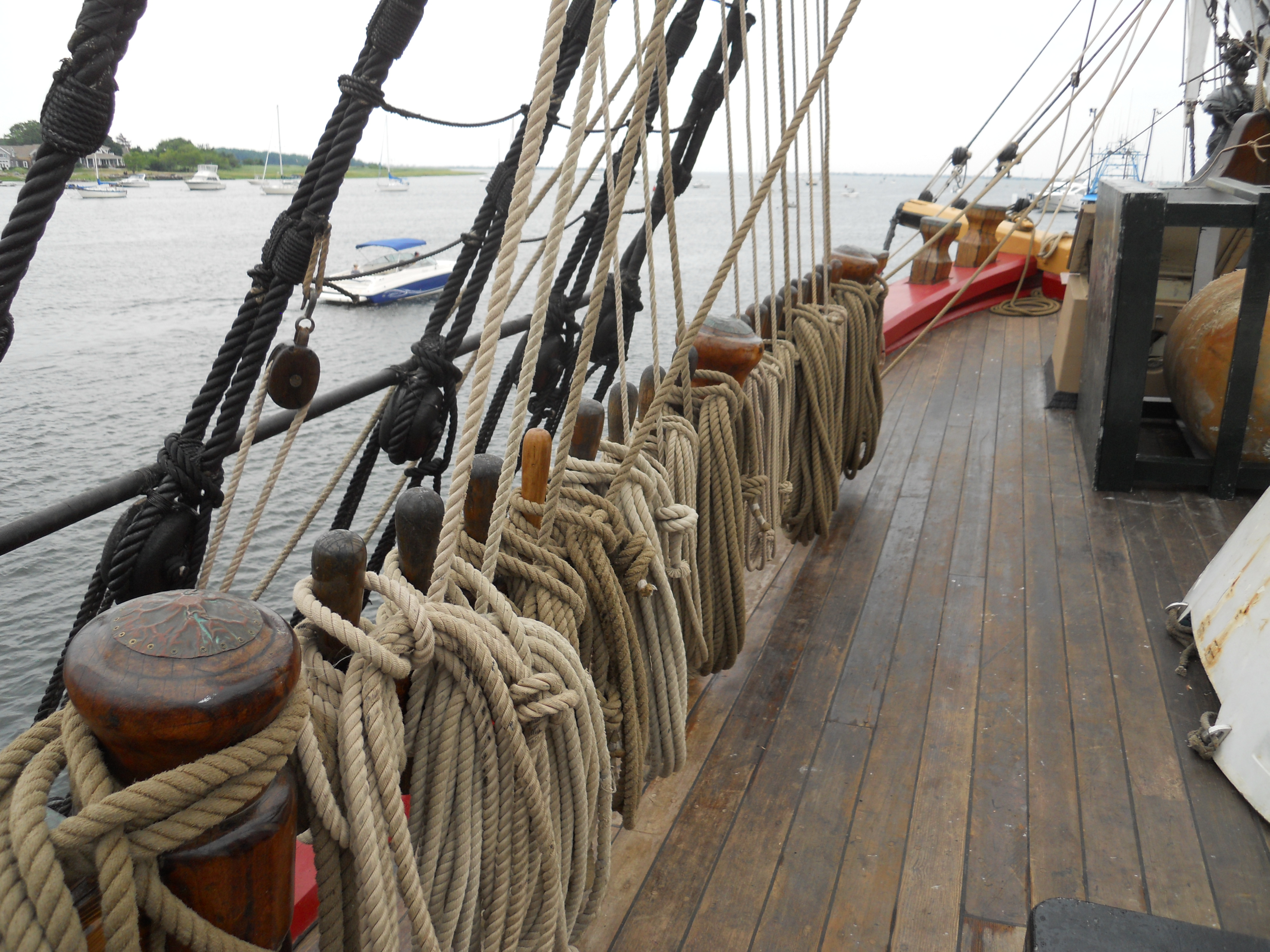 Belaying pins on the Bounty 1960, Newburyport Harbor, summer, 2012. The weapon of choice for sailing vessel mutineers, the pins are shown here in their proper use.